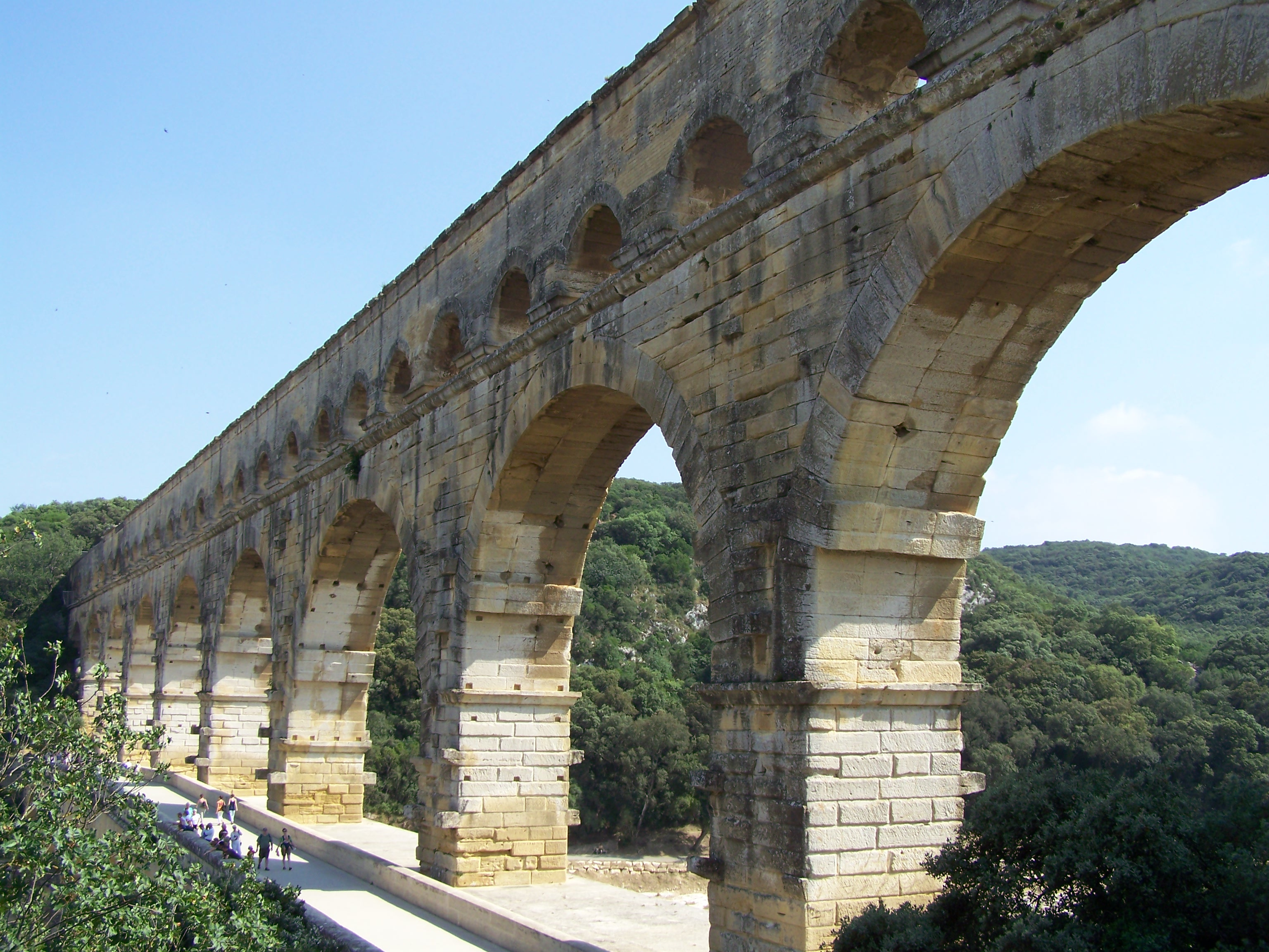 Pont du Gard -1- from north bank